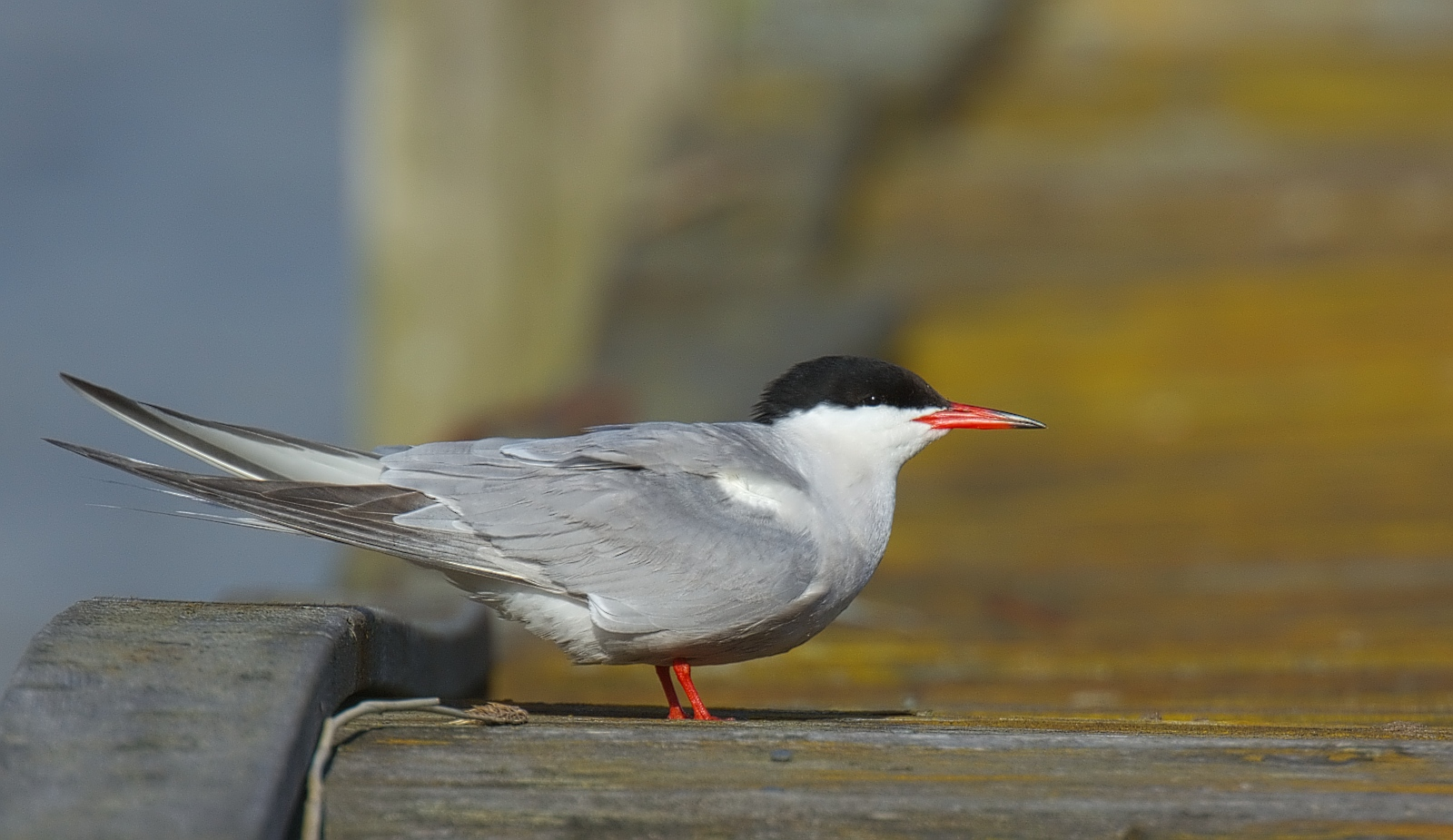 Scientific name: Sterna hirundo Original file: d7100_11907_photivo Common tern, Sterna hirundo